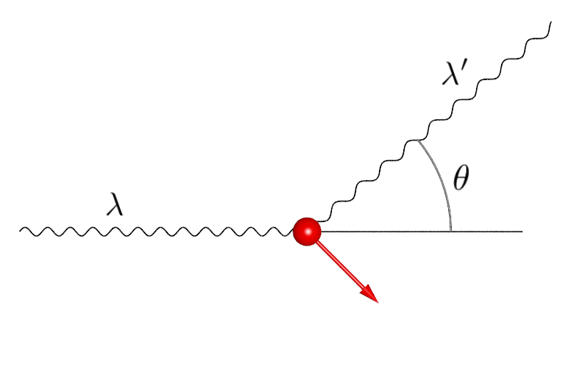 The Compton effekt